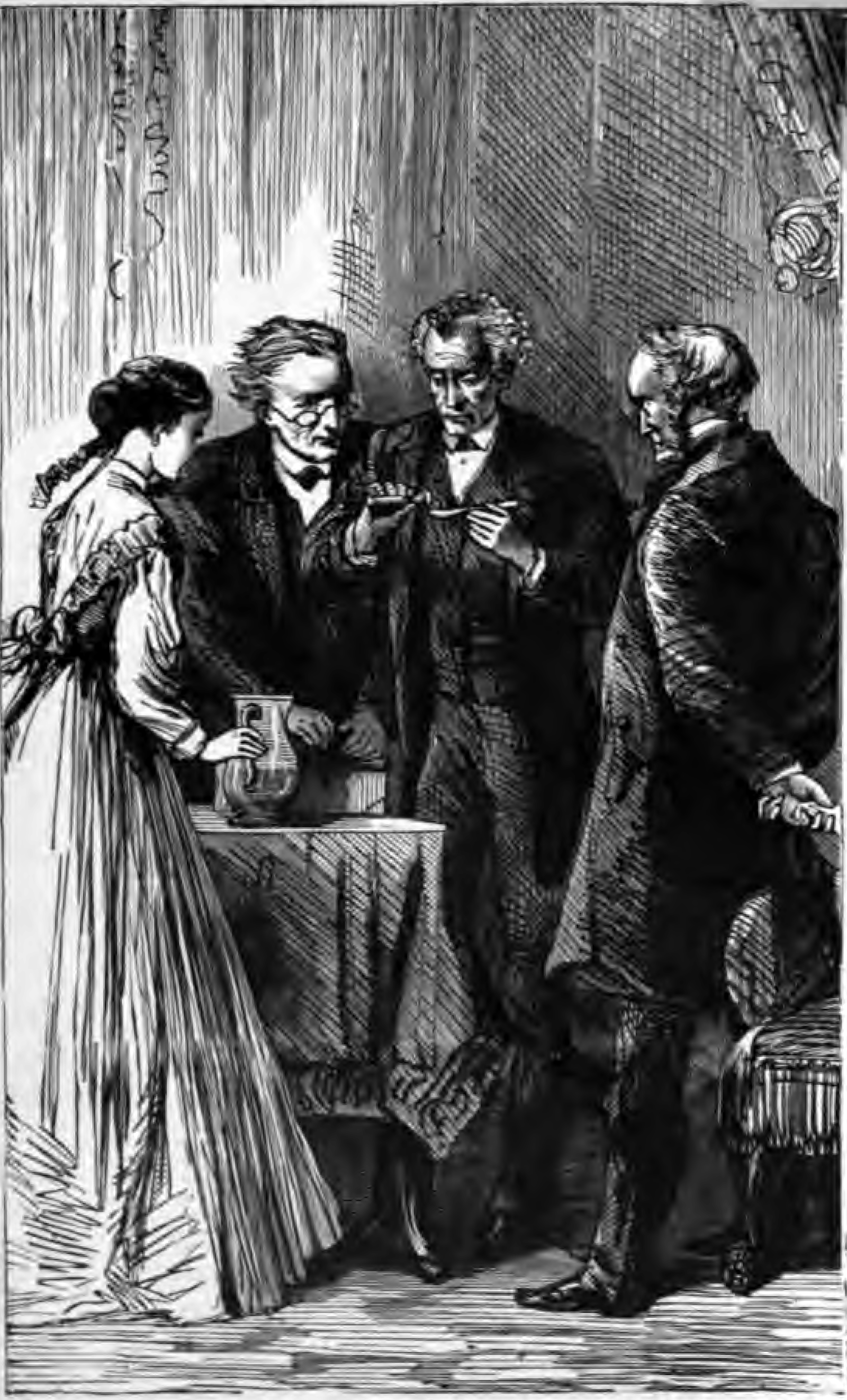 Illustrations from the book, The Moonstone, by Wilkie Collins